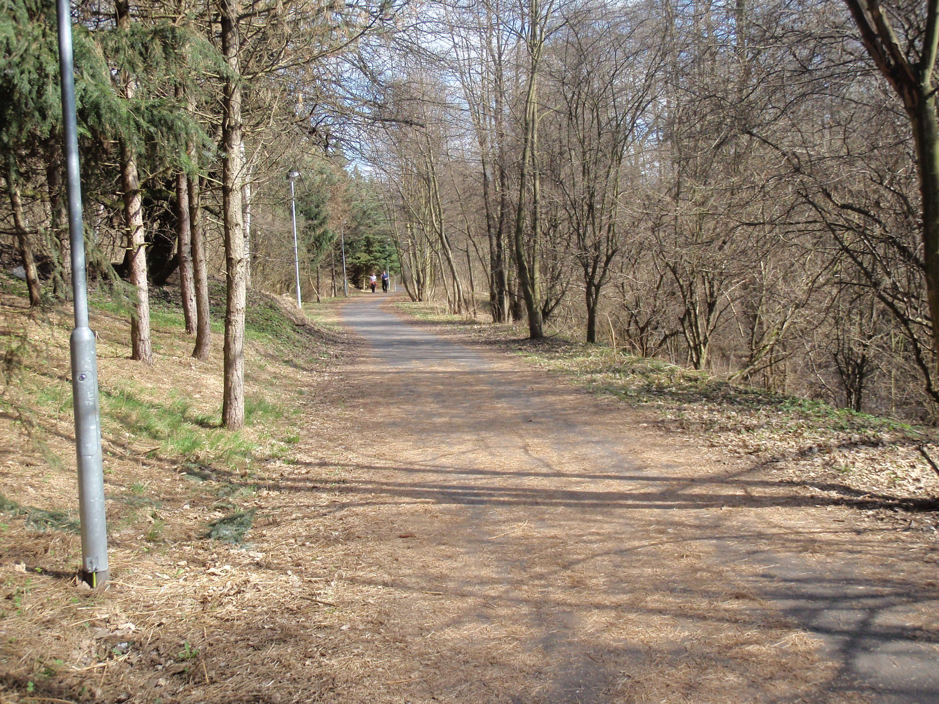 bicycle path Rolava